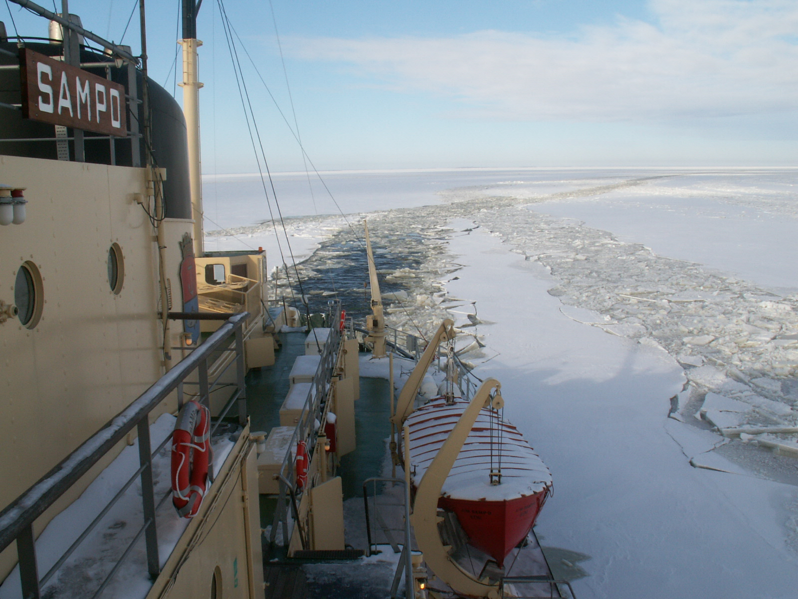 View backwards from Icebreaker Sampo near Kemi, Finland